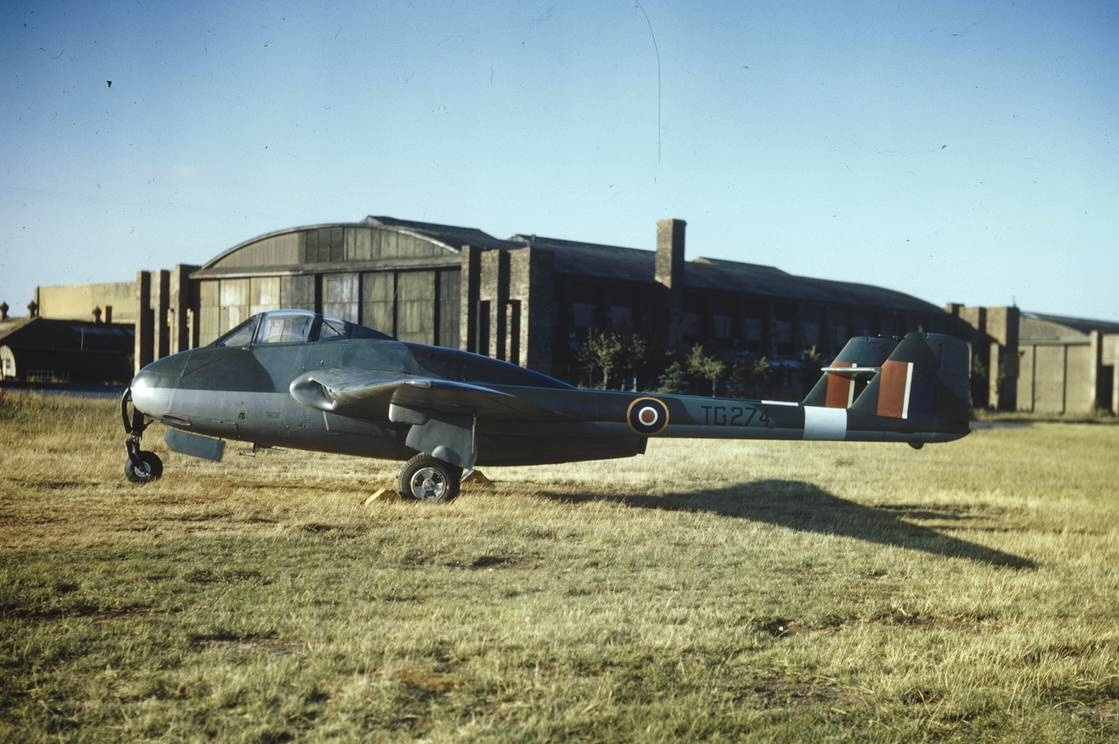 The first production Royal Air Force de Havilland Vampire F.1 (s/n TG274), at the Aeroplane and Armament Experimental Establishment, Boscombe Down, Wiltshire (UK), where it undertook extensive handling trials from July to October 1945.